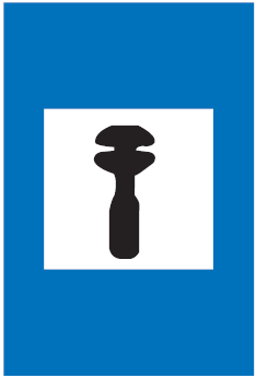 Diagram of road signs of Luxembourg